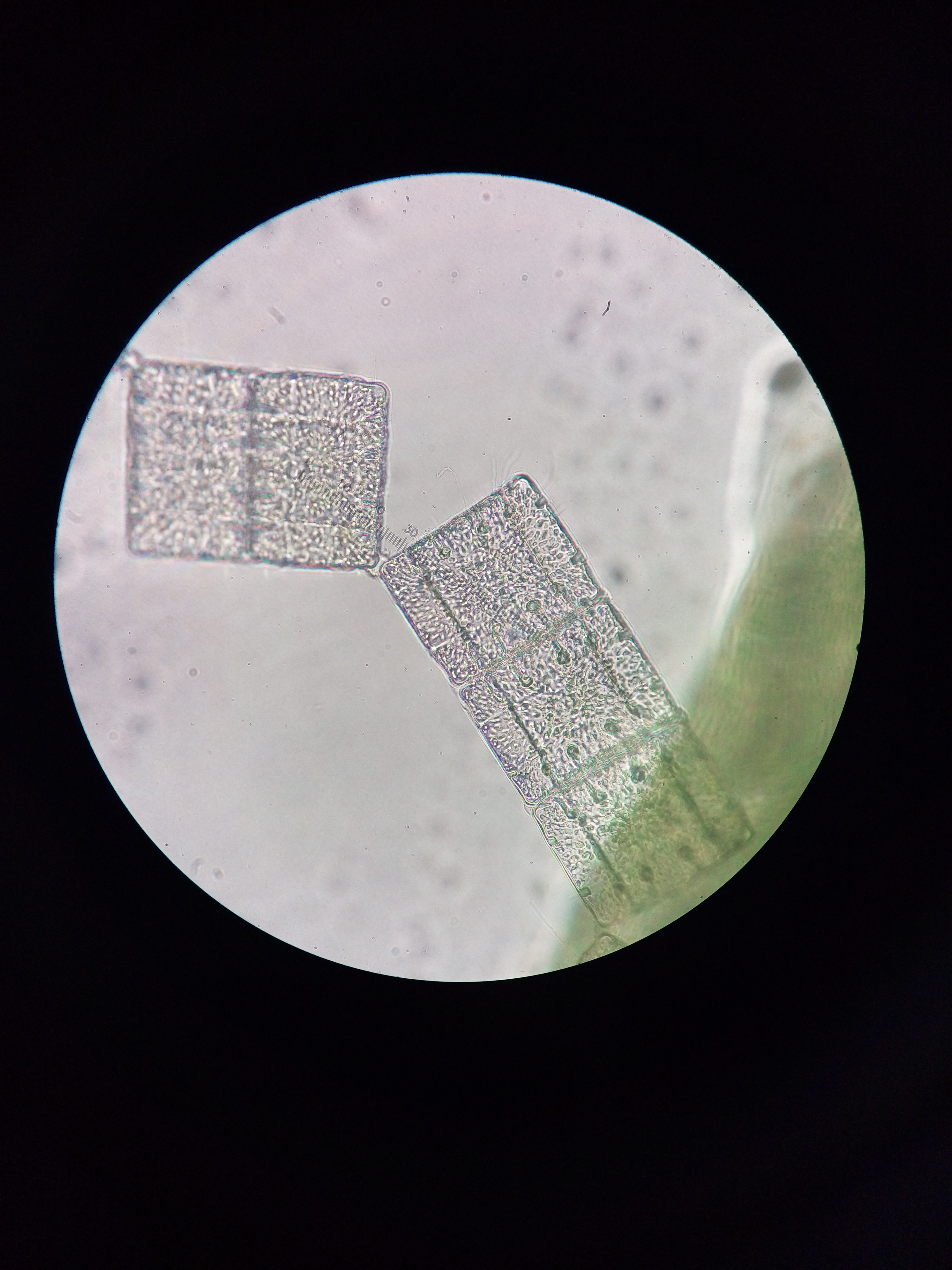 Algae species: Terpsinoe musica